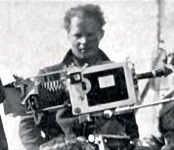 German cameraman Richard Angst (1905–1984) during the shootings for the mountain film Storm over Montblanc by director Arnold Fanck (1889–1974).